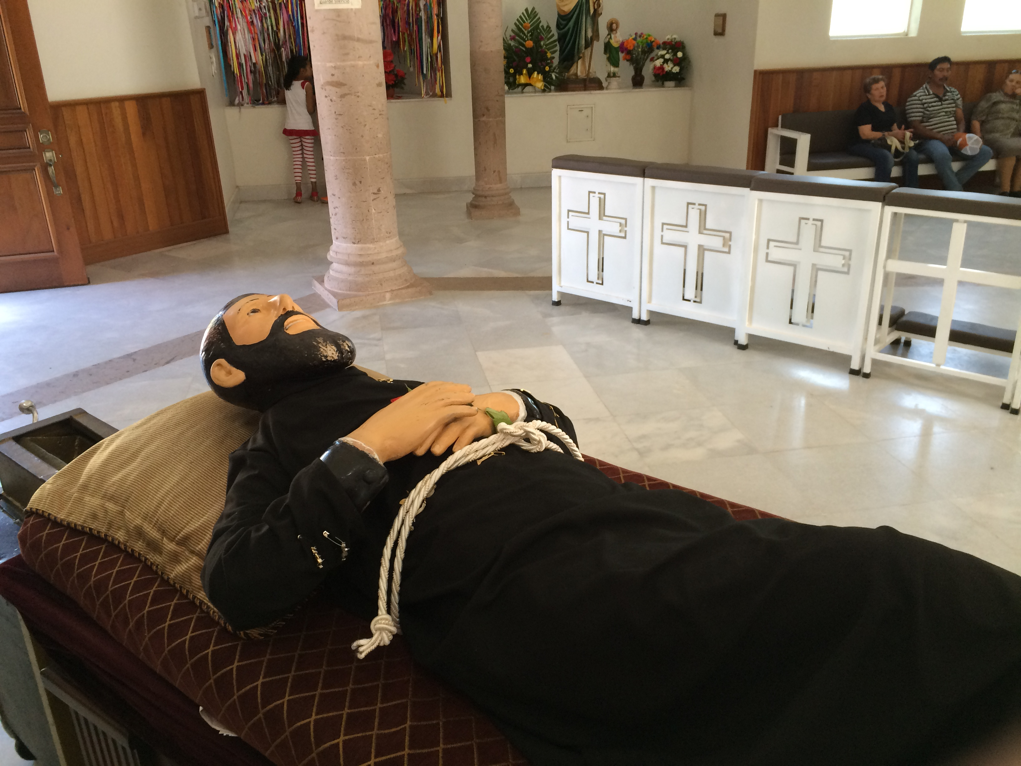 Francis of Assisi in Magdalena de Kino, Mexico.